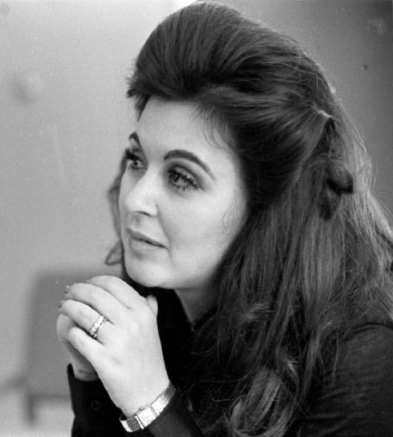 Suad Husni in 1979